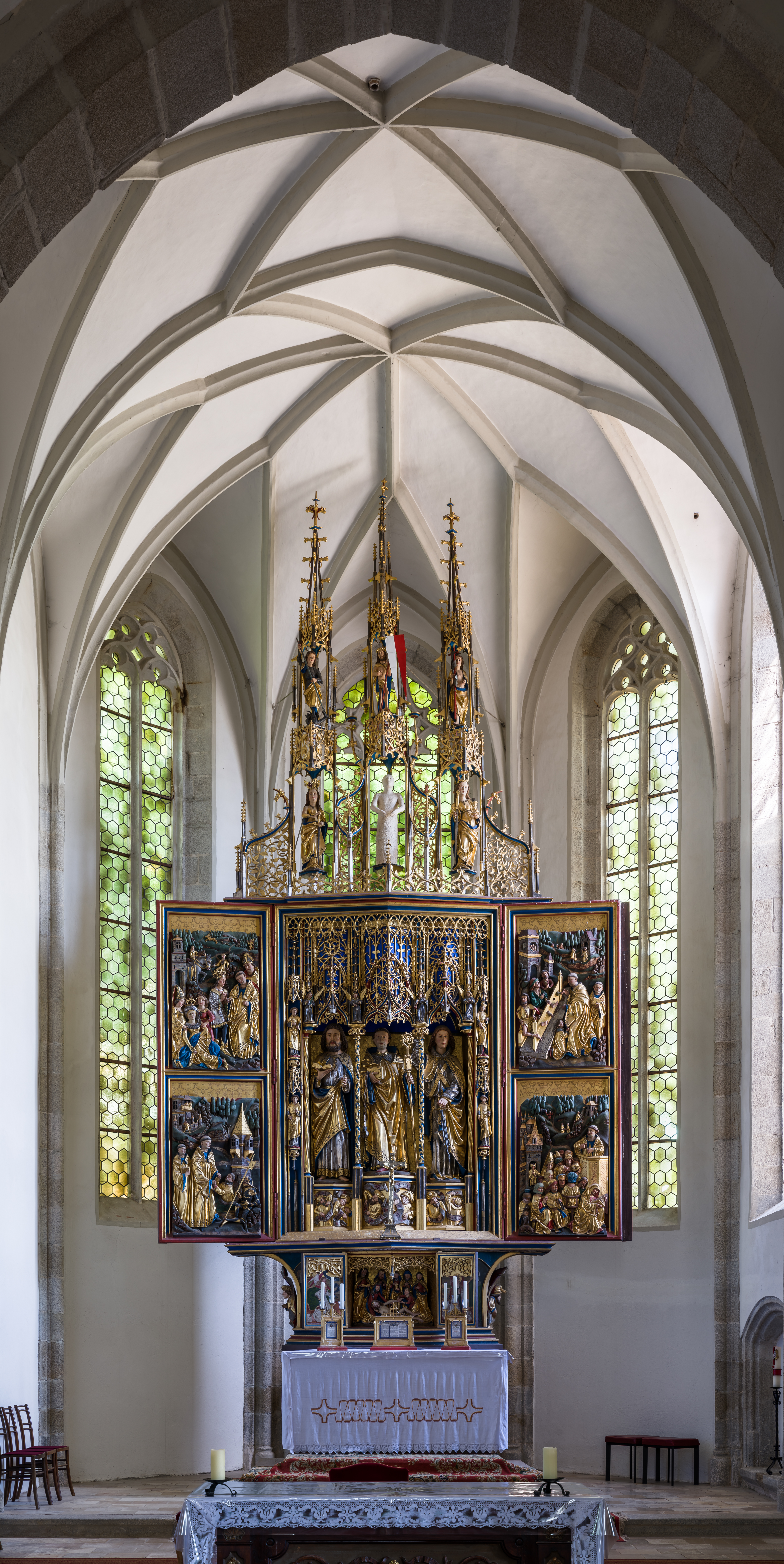 High altar of the subsidiary church Pesenbach, municipality of Feldkirchen an der Donau, Upper Austria. Anonymous master (called Master SW), dated 1495.